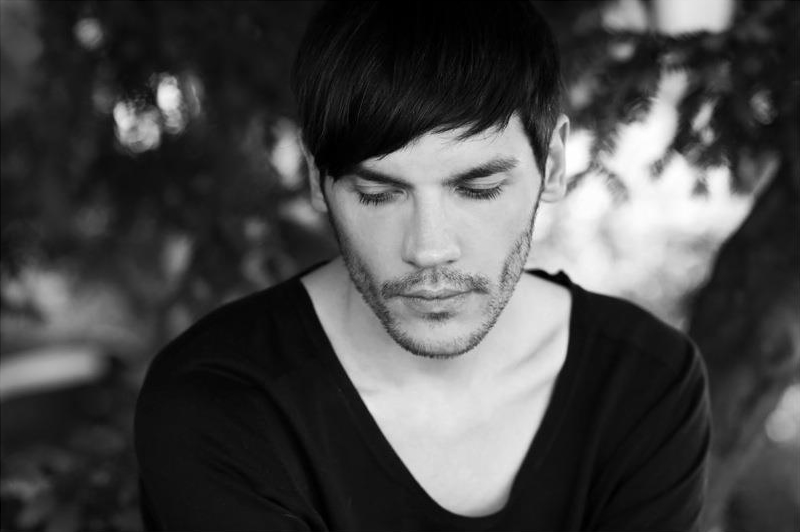 Portrait of Ivan Ivanovic